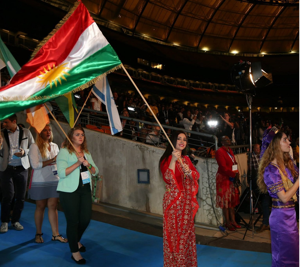 In 2013 Chopy was chosen to be the Kurdish flag bearer for the 'One Young World Summit' in Johannesburg, South Africa